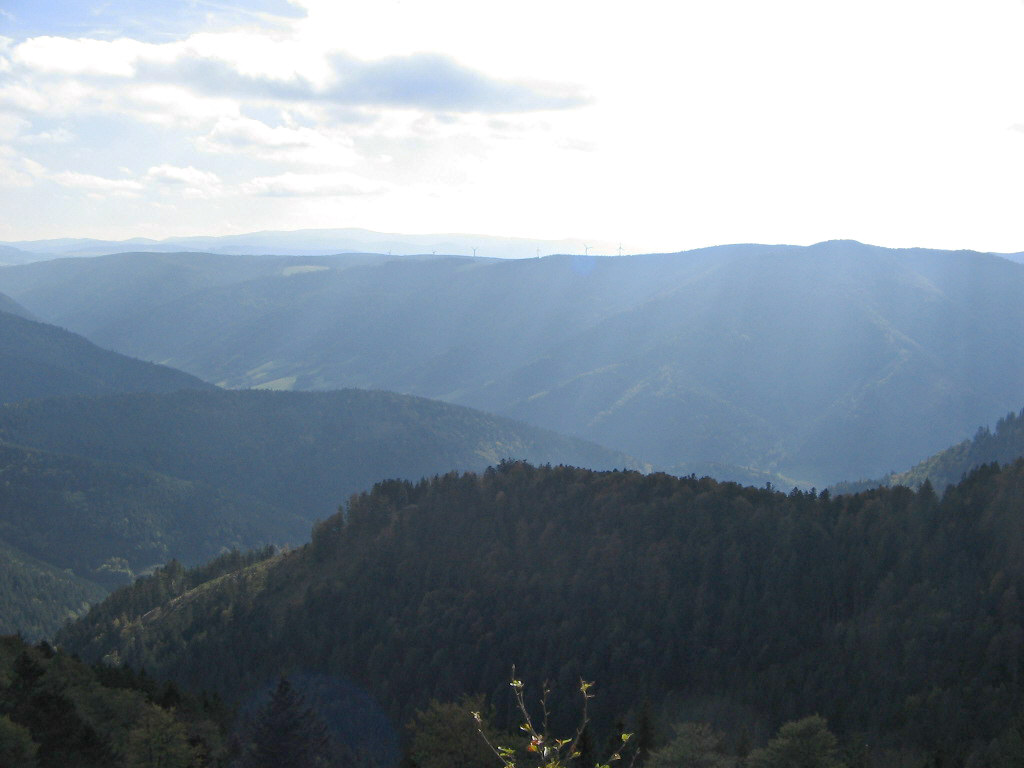 View from Ibichkopf over the valley Simonswälder Tal (depth: 700-800m) SSW towards the Feldberg (in the distance)